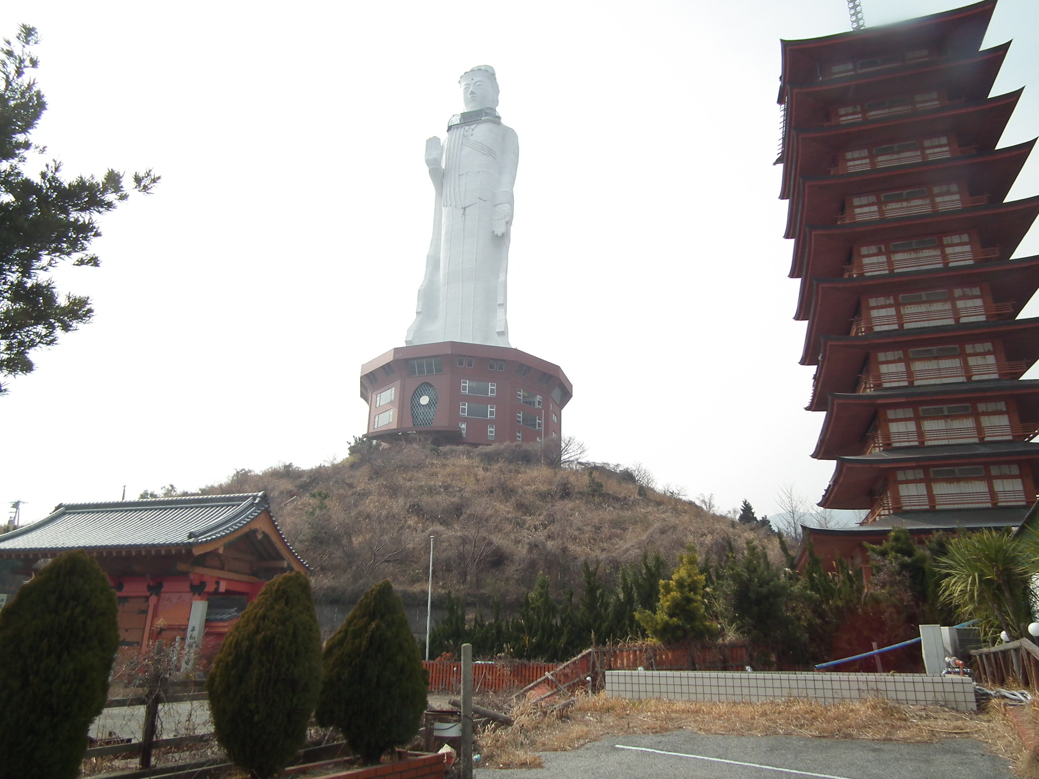 Heiwakannonji